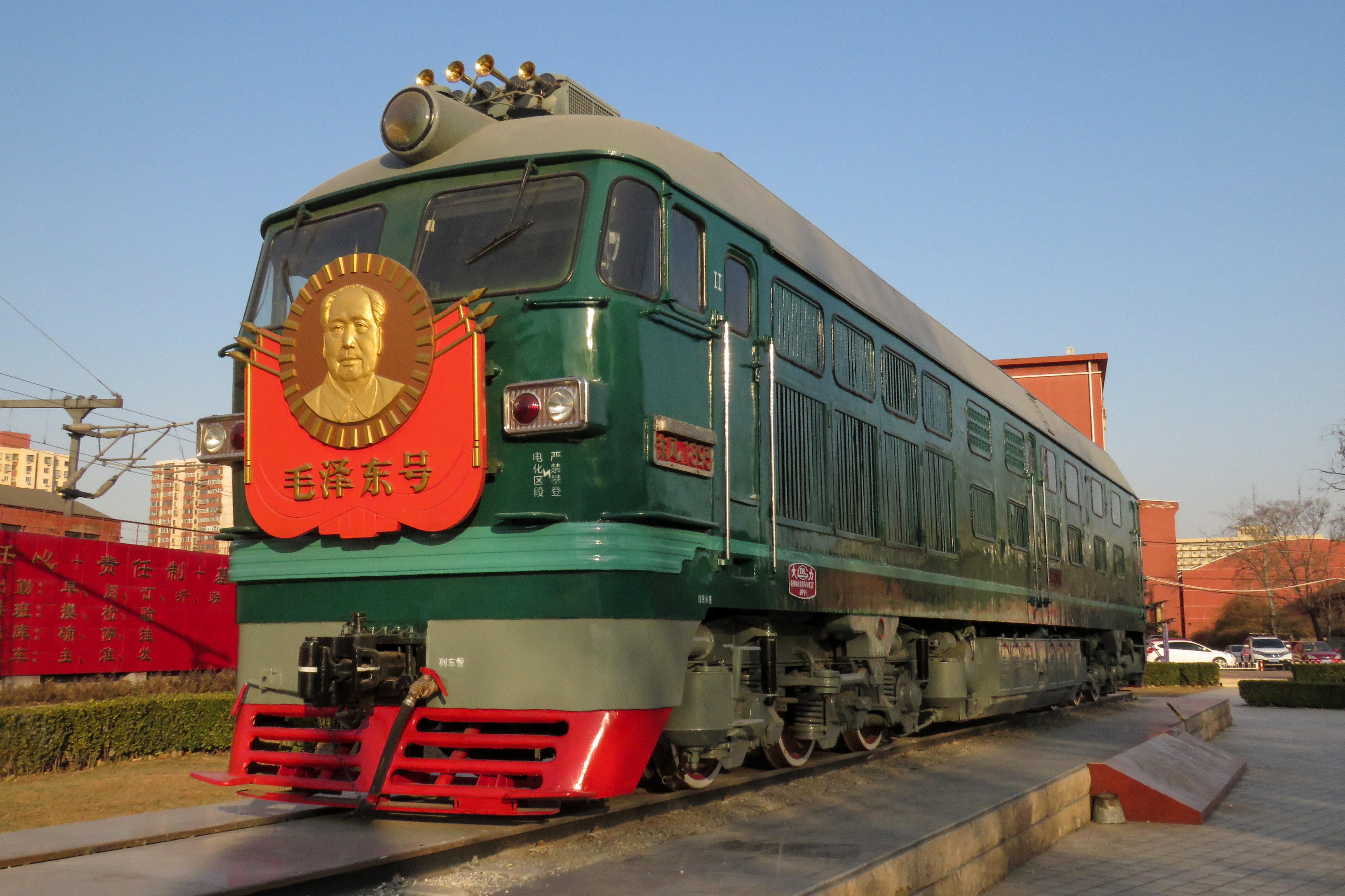 From 1991-08-29 to 2000-12-25.